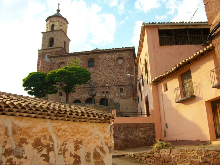 Torres de Albarracin (Teruel - Spain)